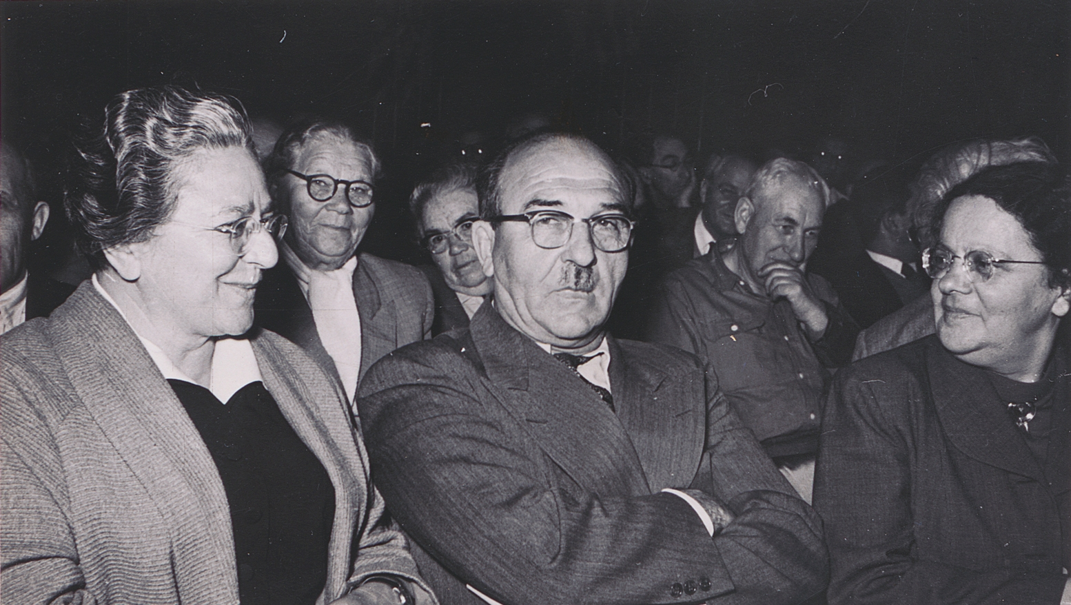 First row, right to left: Beba Idelson, Levi Eschol and Elisheva Kaplan. Behind between Eschol and Elisheva Kaplan is Ada Maimon